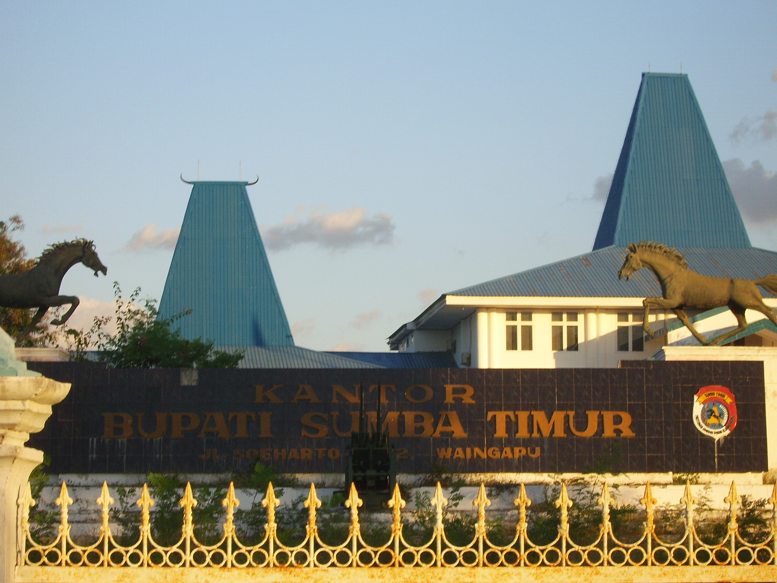 Office of the bupati at Waingapu, Sumba